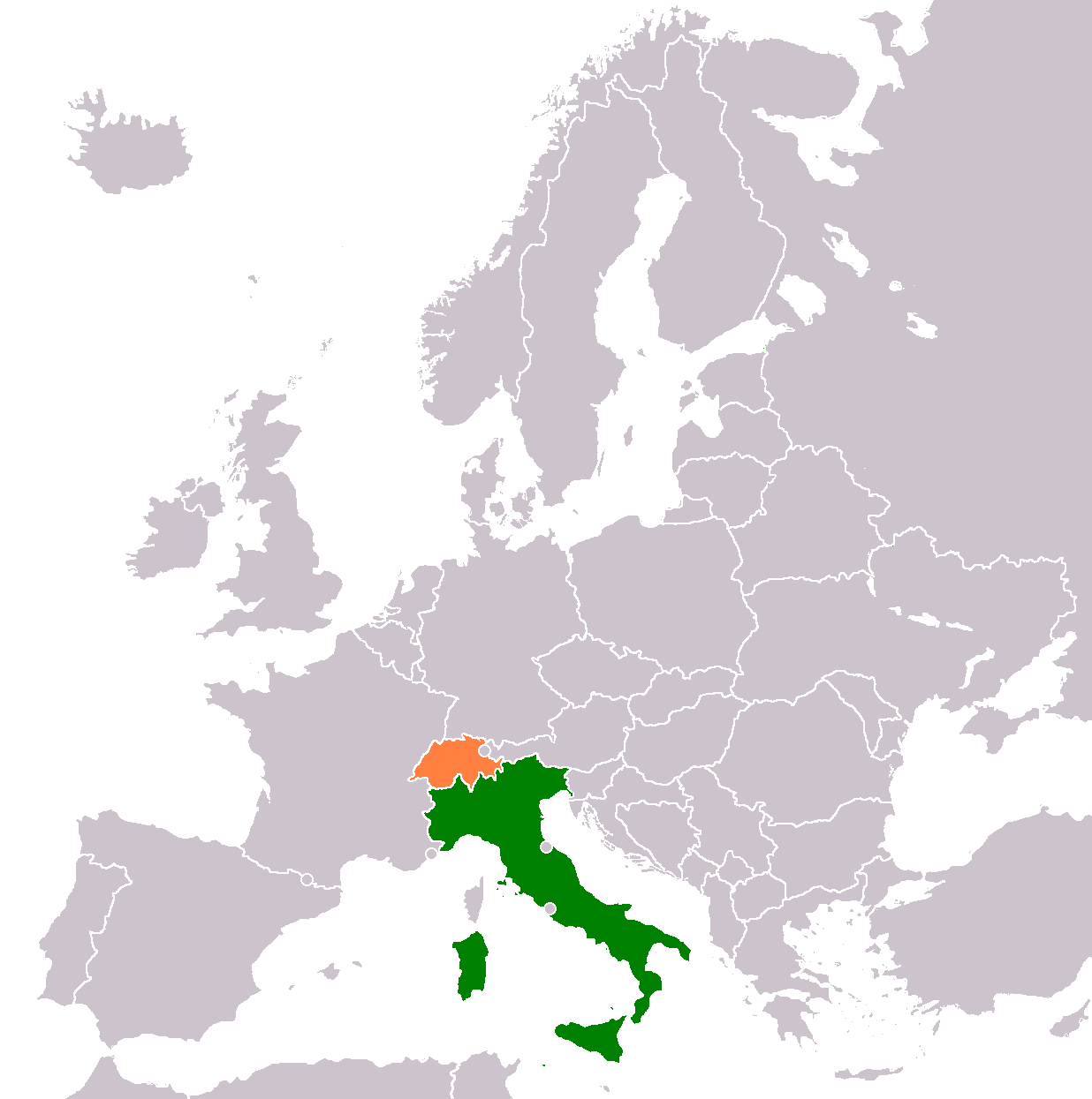 Italy Switzerland locator map